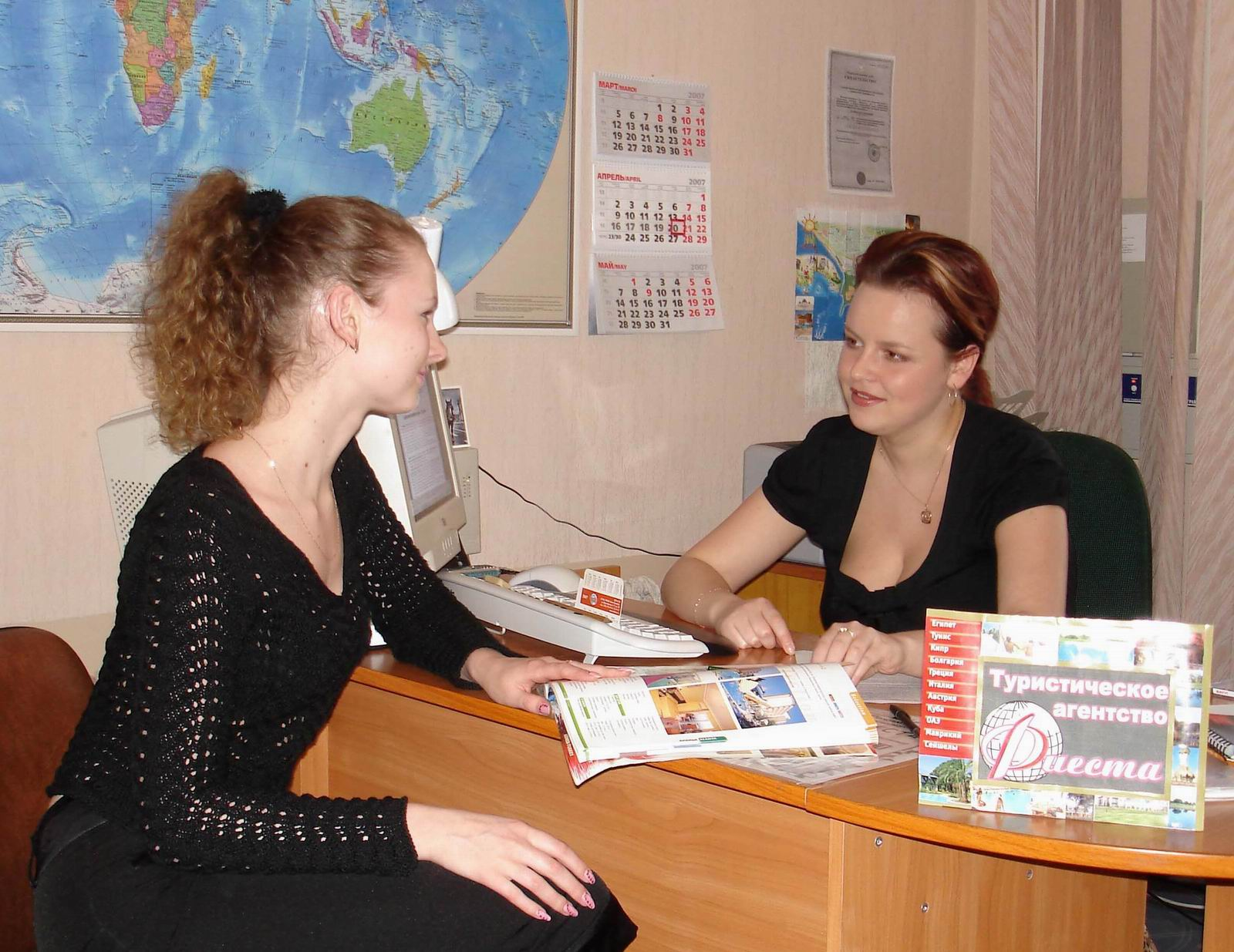 Travel agencies in Russia